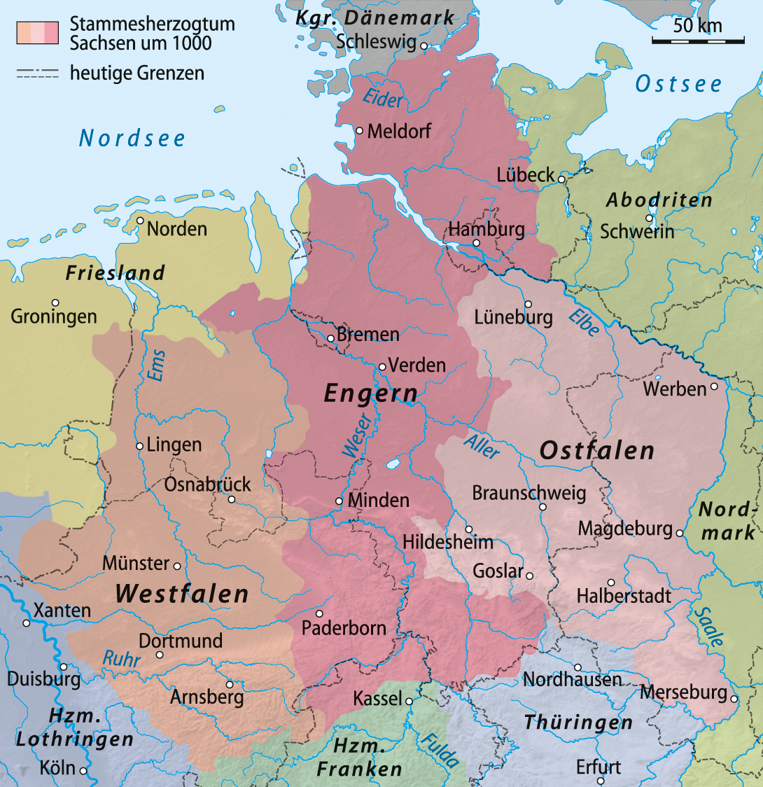 Map of the Duchy of Saxony about 1000